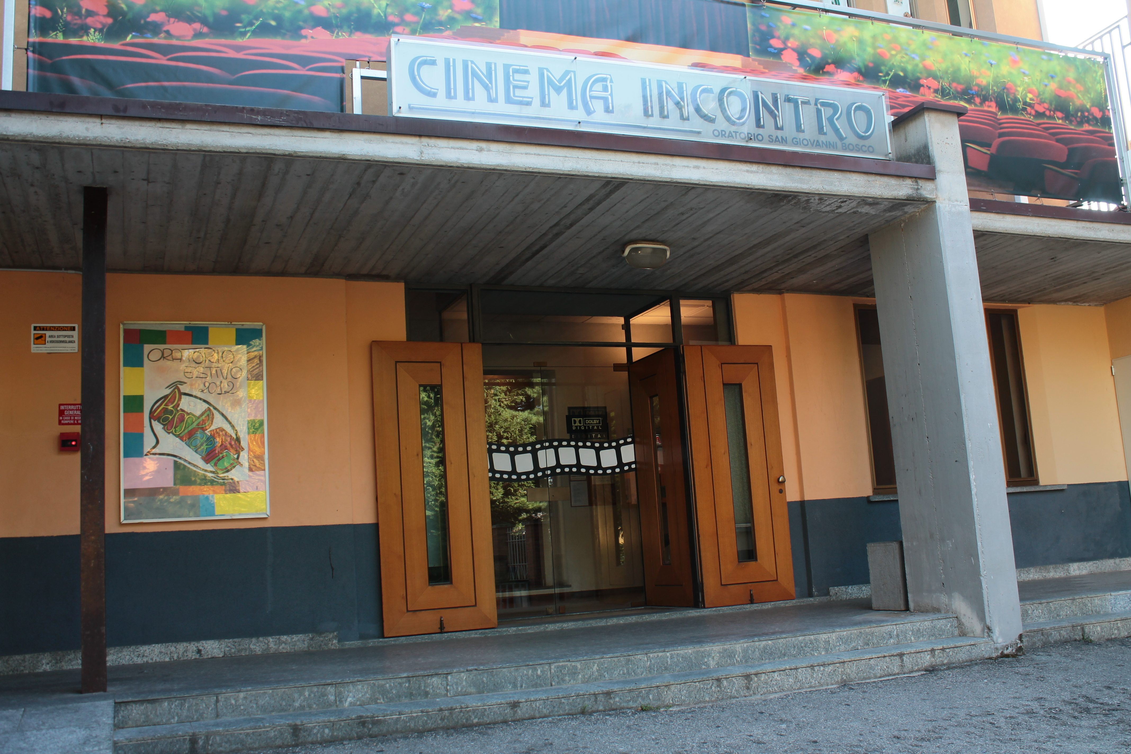 Cinema Esterno